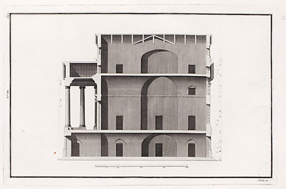 Villa Foscari called "La Malcontenta" by Andrea Palladio. Drawing by Ottavio Bertotti Scamozzi, 1781.